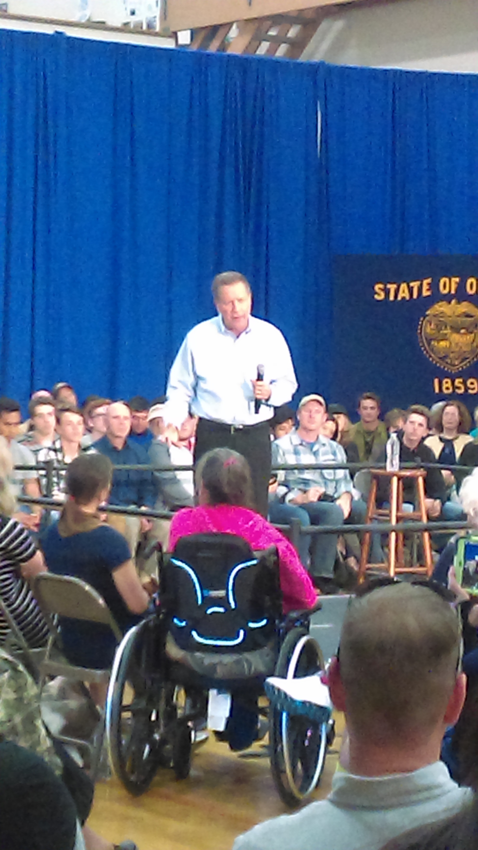 Governor of Ohio and 2016 Republican presidential candidate John Kasich is seen during his campaign at Central Medford High School in Medford, Oregon on April 28, 2016.